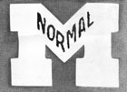 Michigan State Normal College logo. School is now known as Eastern Michigan University.